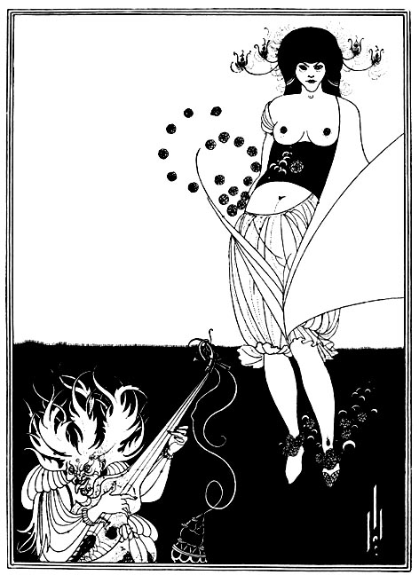 The Stomach Dance